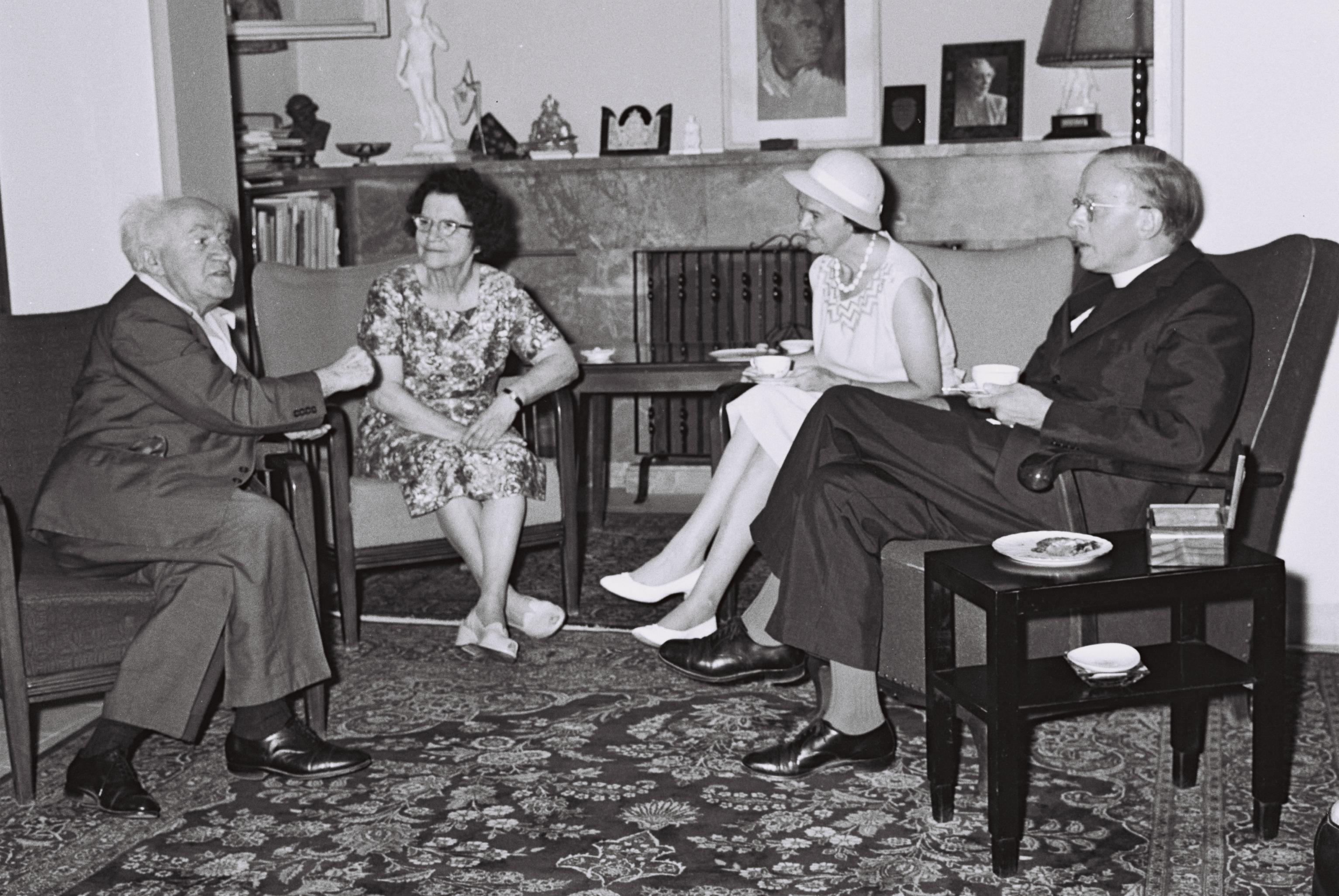 ARCHBISHOP OF YORK AND HIS WIFE (R) CALLING ON PRIME MINISTER AND MRS. DAVID BEN GURION DURING THEIR VISIT IN ISRAEL